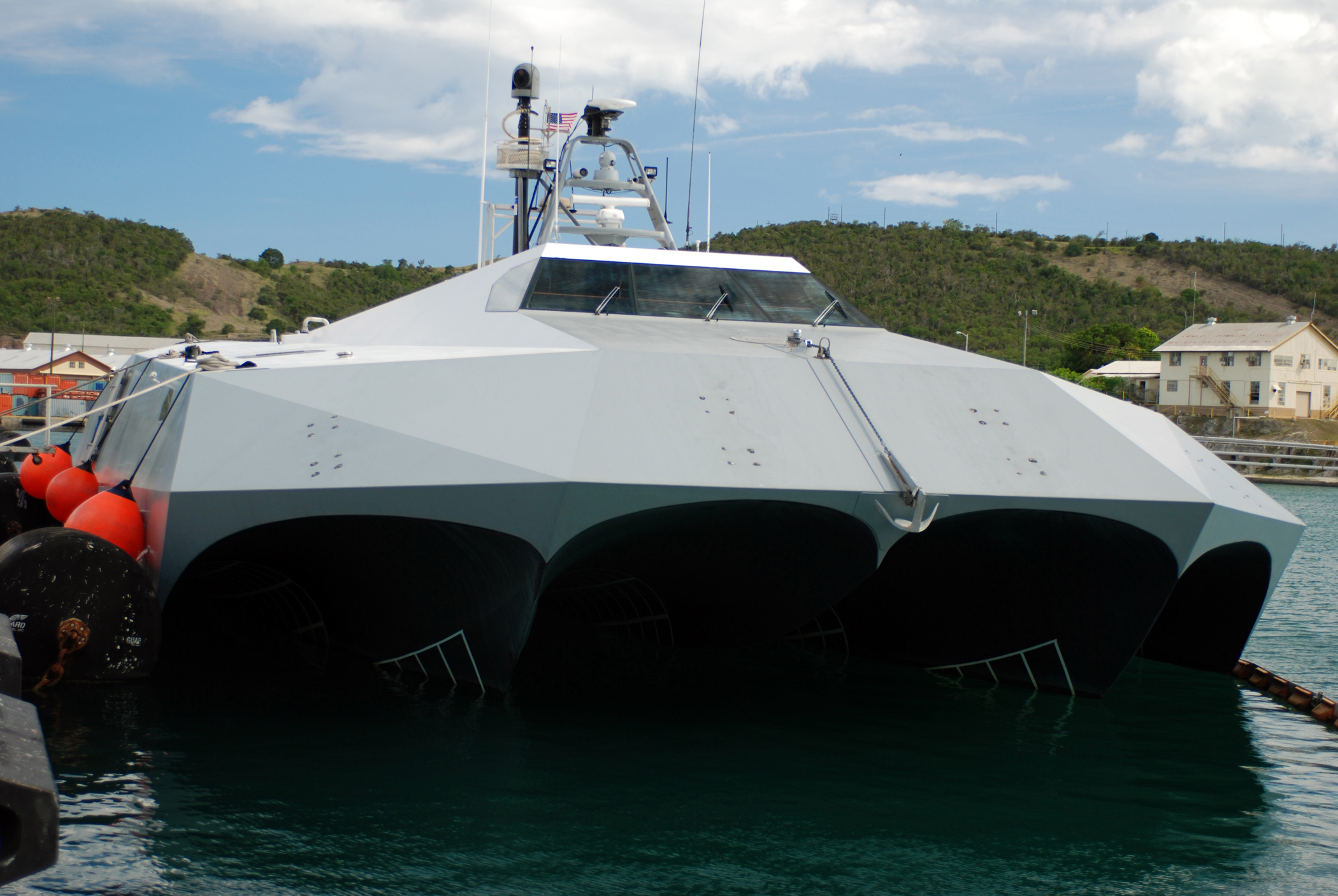 GUANTANAMO BAY, Cuba (June 11, 2008) Stiletto sits pier side during a refueling before conducting counter-illicit trafficking operations in the Caribbean. Stiletto is a one-of-a-kind, experimental vessel designed for high-speed special operative amphibious insertions operated by Army mariners assigned to the 7th Sustainment Brigade, 10th Mountain Division in Fort Eustis, Va. U.S. Navy photo by Mass Communication Specialist 2nd Class Nat Moger (Released)